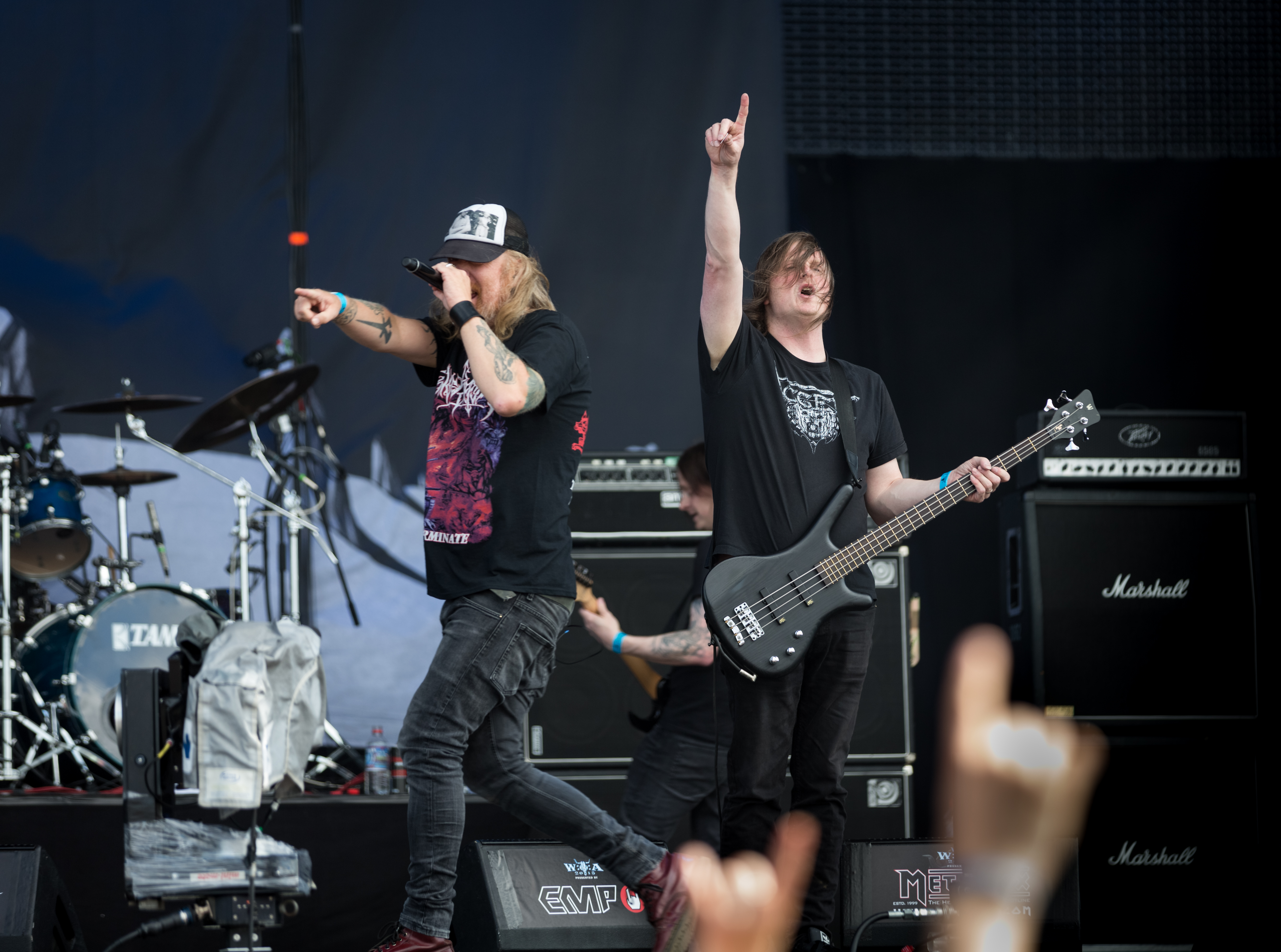 At The Gates - Wacken Open Air 2015